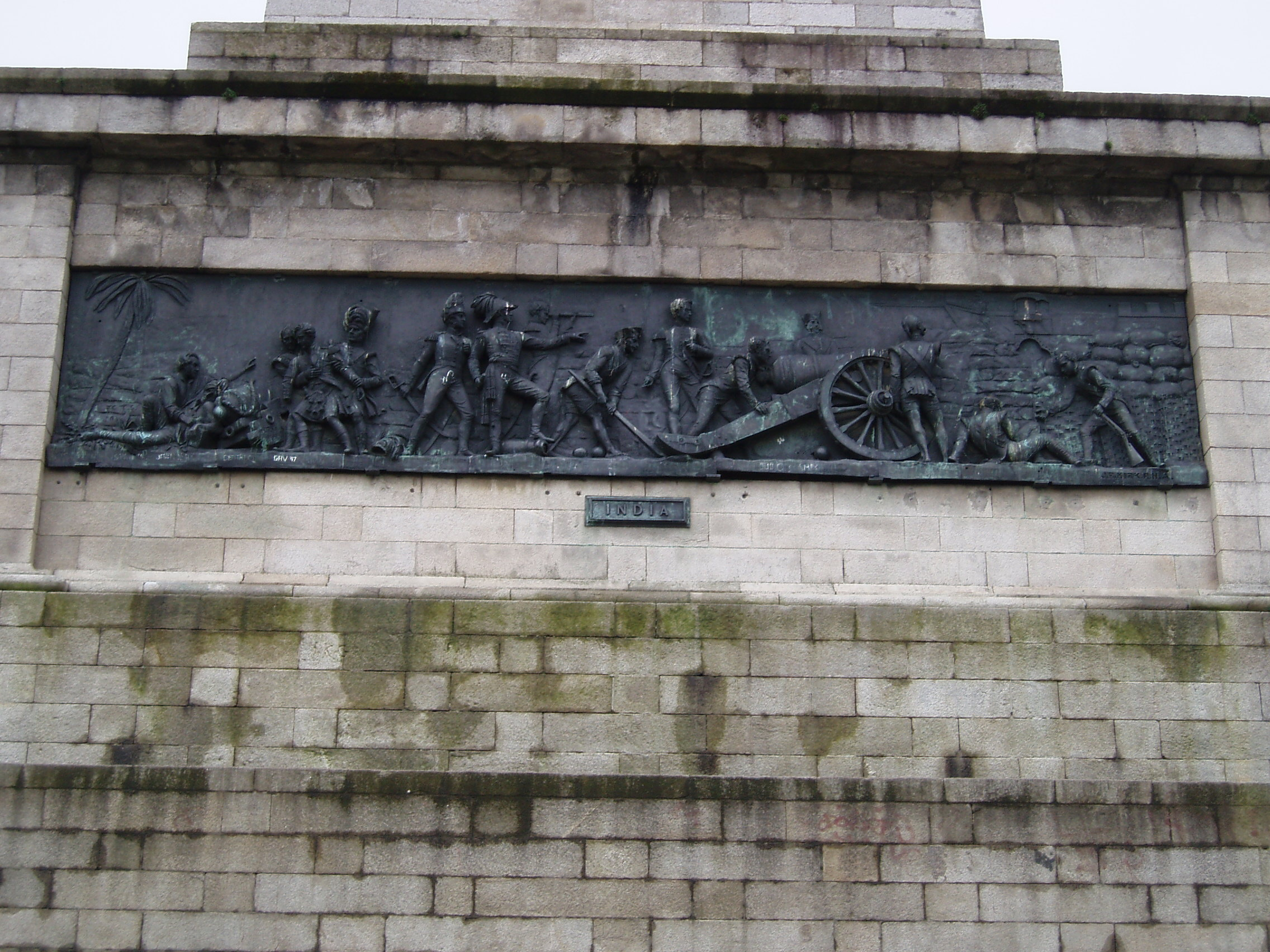 Wellington monument, Phoenix Park, Dublin